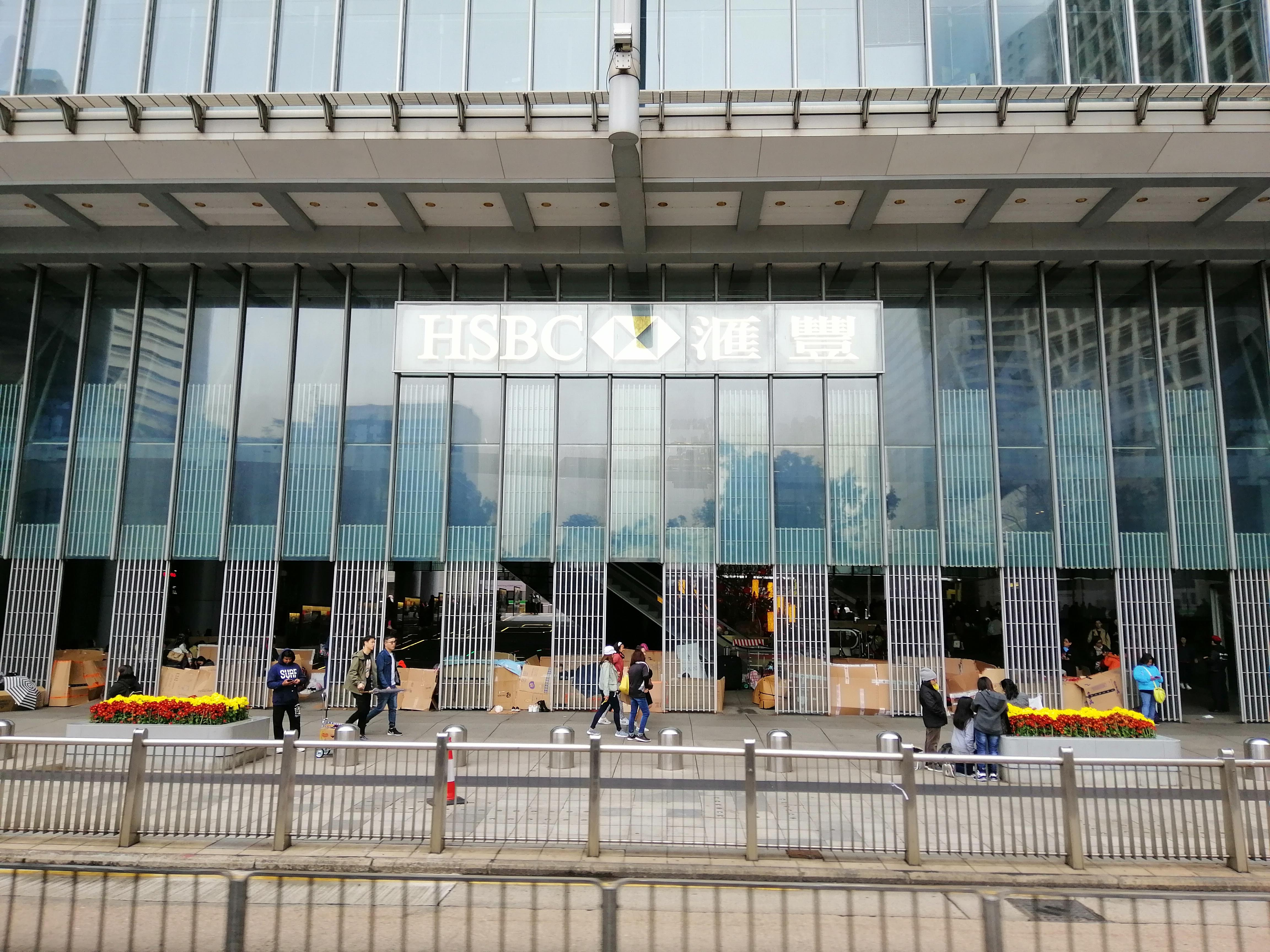 HSBC Entrance